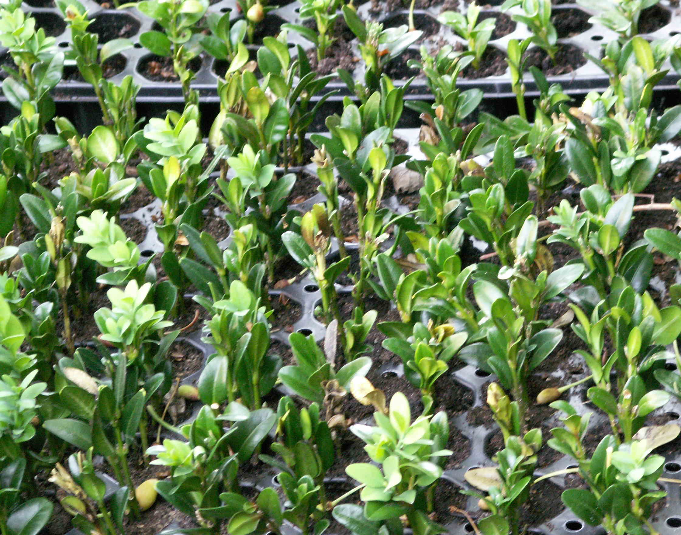 Softwood stemcuttings of Buxus sempervirens